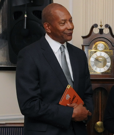 Intendenta Olivera delivers Illustrious Visitor Medal to the American basketball player Alex English [U.S. Embassy photo: Juan Francisco Casal / Copyright info] More info at goo.gl/qC75WK